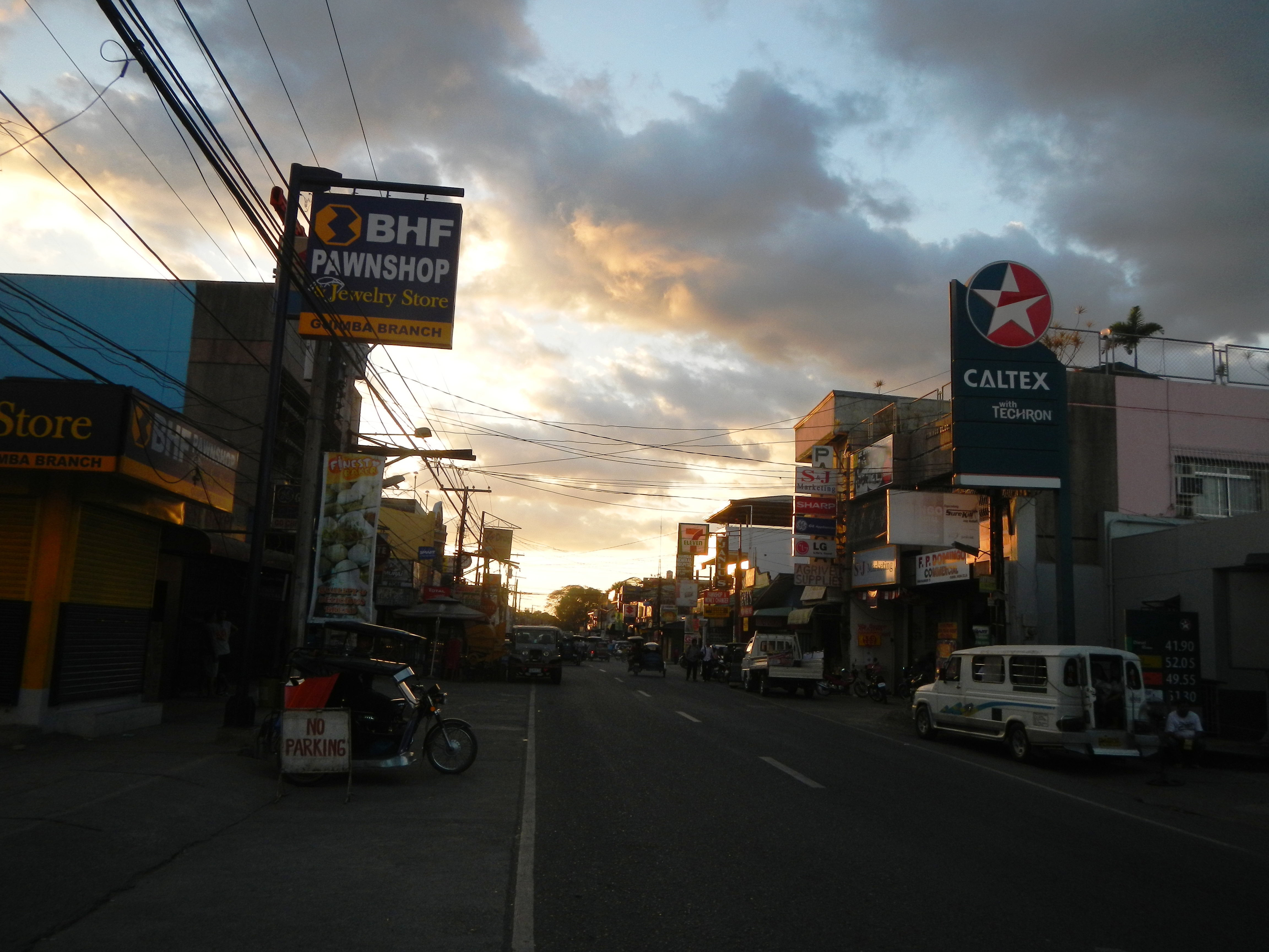 A view of downtown Guimba